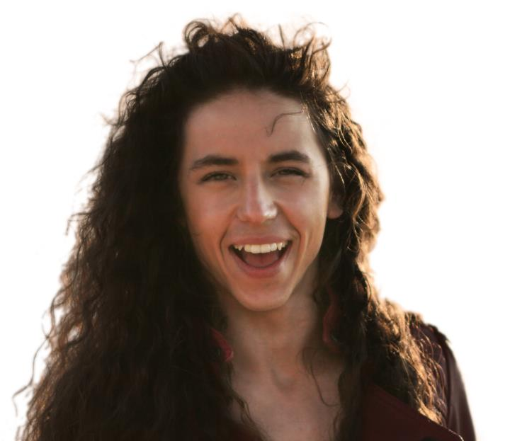 my personal file-source, julieprus-author